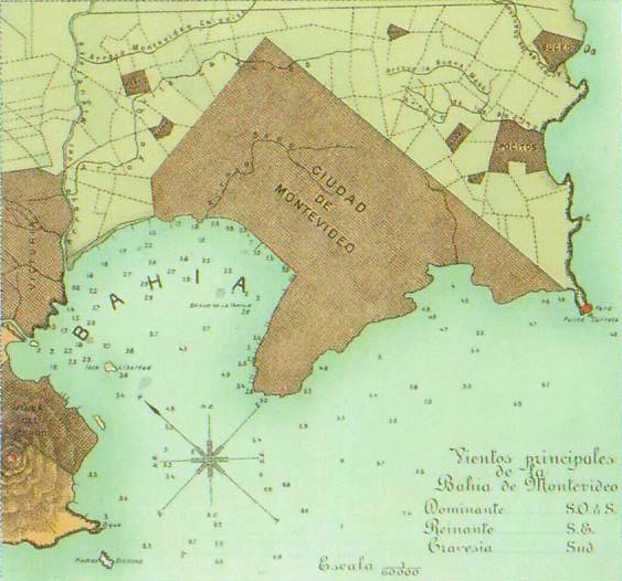 Detail showing the extent of Montevideo of the times taken from the Carta Geográfica de la República Oriental del Uruguay of 1893. The limits of Montevideo seen here coincide with the actual Boulevar General Artigas and explain its unusual 90º angural shape.